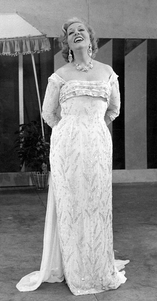 Wanda Osiris on stage during the variety 'Doppio rosa al sex' (1959) by Antonio Grimaldi and Gianni Corbucci